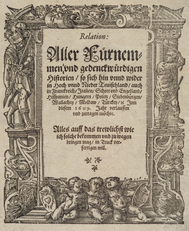 Title page of the Relation aller Fürnemmen und gedenckwürdigen Historien from 1609. The German-language 'Relation' had been published by Johann Carolus at the latest since 1605 in Strassburg, and is recognized by the World Association of Newspapers as the world's first newspaper.